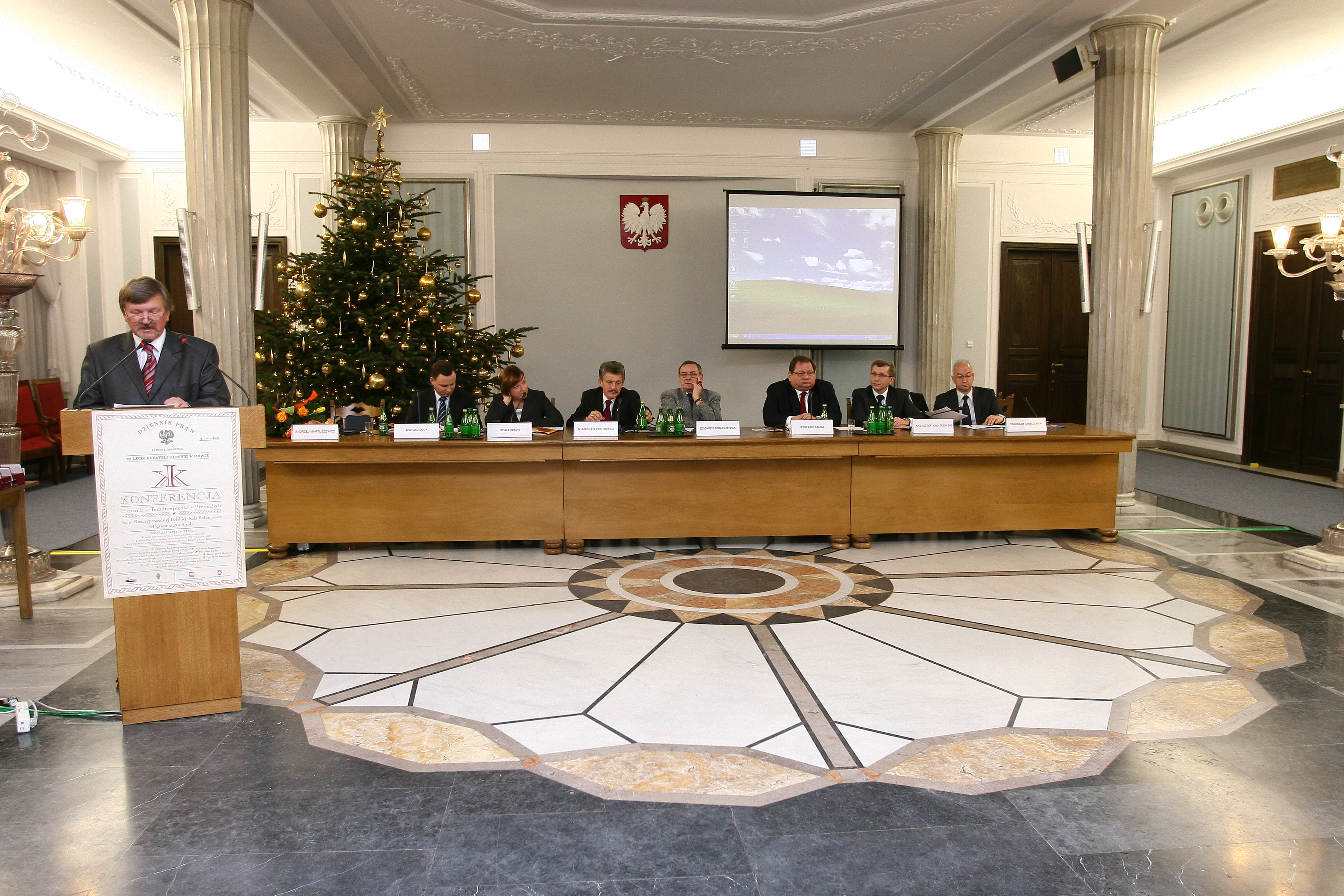 President of the National Council of Probation Officers Andrzej Martuszewicz. Conference "90 years of probation in Poland. History-present-future"